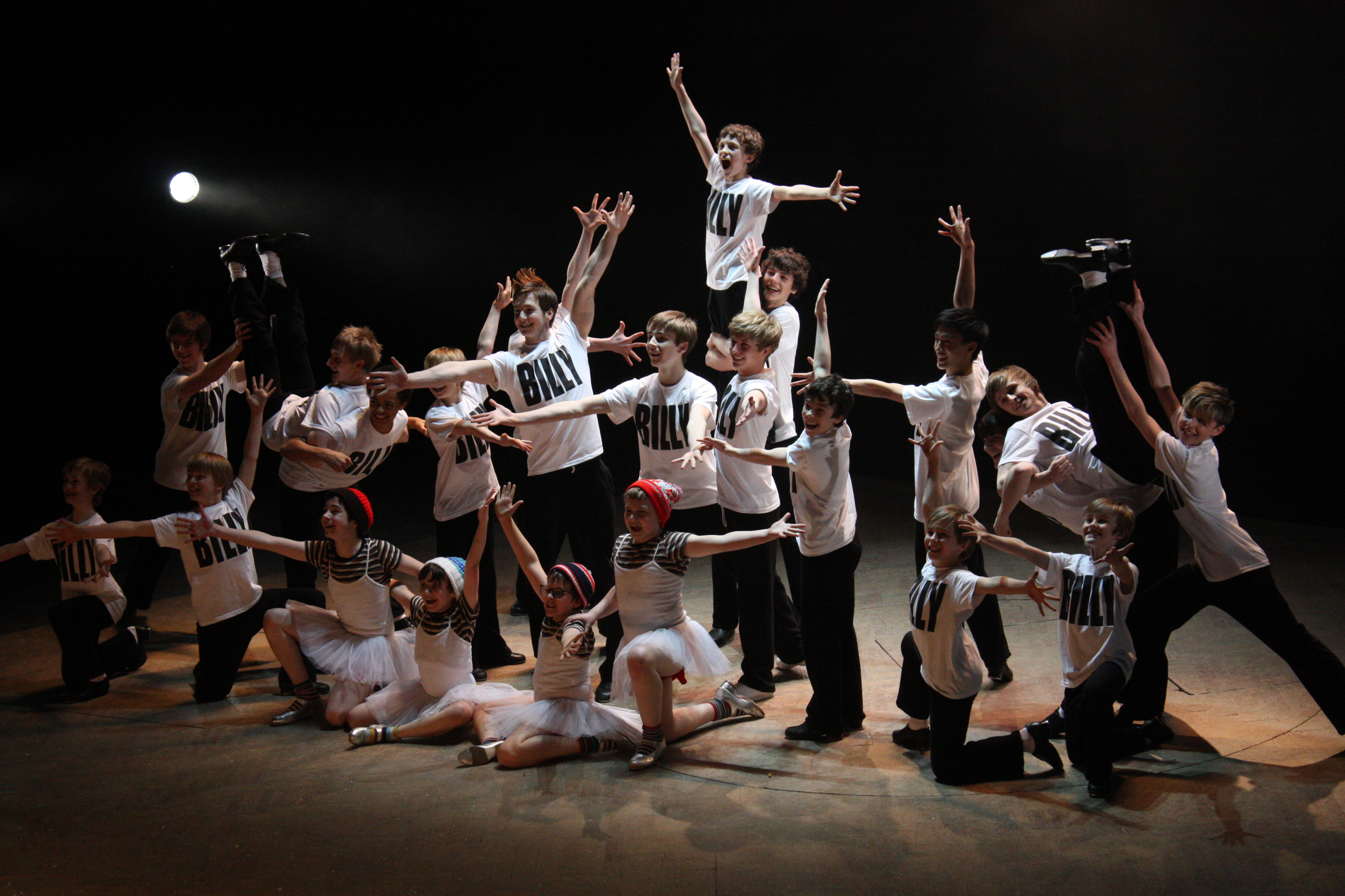 Five years of West End Billys – (in chronological order of first performance) Liam Mower, James Lomas, George Maguire, Leon Cooke, Travis Yates, Matthew Koon, Dean McCarthy, Layton Williams, Oliver Taylor, Sam Angell, Joshua Fedrick, Fox Jackson-Keen, Tom Holland, Brad Wilson, Oliver Gardner, Dean Charles Chapman, Rhys Yeomans, Aaron Watson and Scott McKenzie – and four Michaels – (in tutus; L–R) Connor Doyle, Connor Kelly, Jake Pratt and George Maycock – performing onstage for the 5th Birthday celebration of Billy Elliot the Musical at the Victoria Palace Theatre, London.